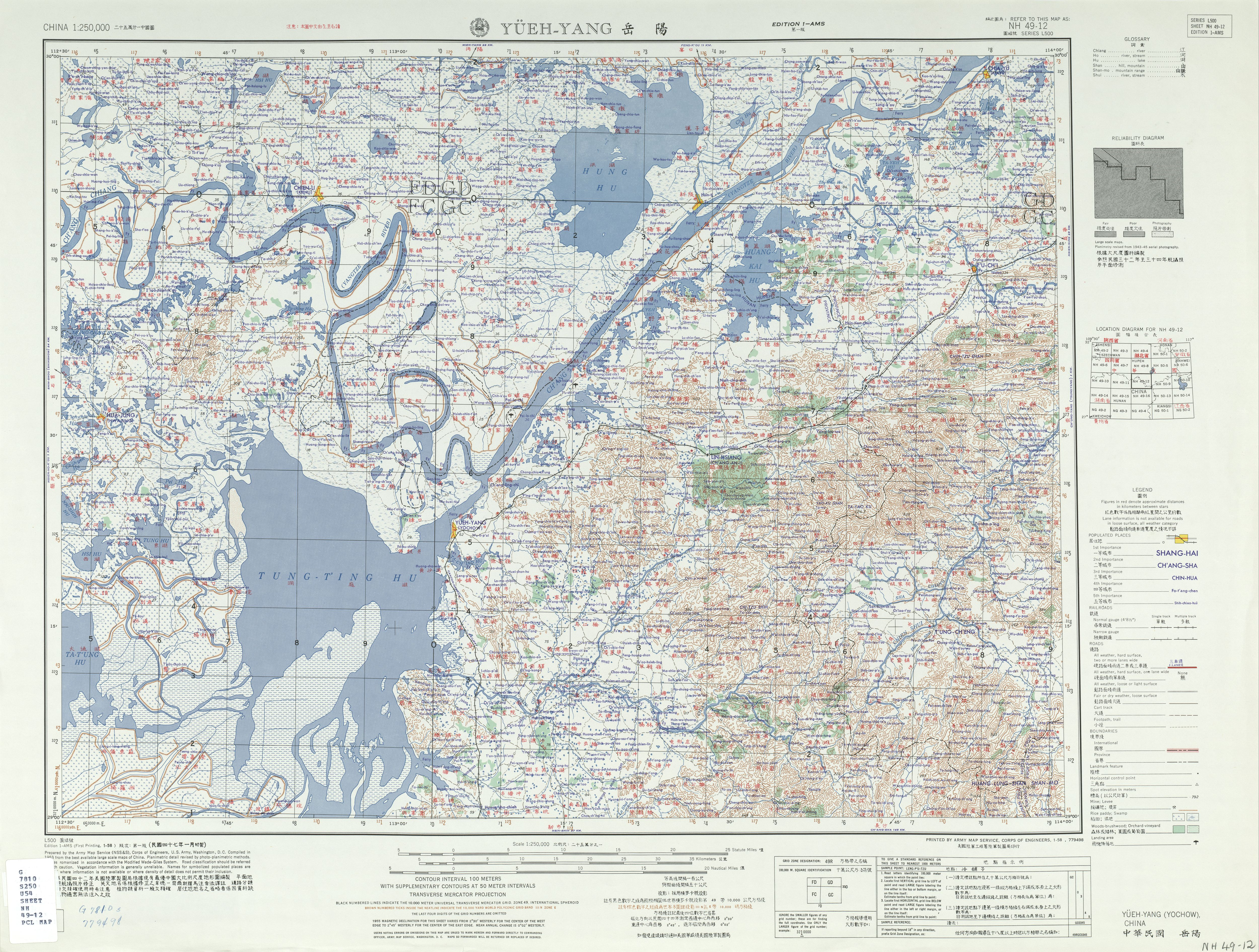 China AMS Topographic Maps